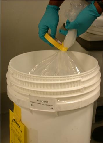 Radioactive waste management using the "twist-and-tape method of closure" as guided by the radioactive waste guideline manual of the Lawrence Berkeley National Laboratory. Most radioactive wastes created in the use of nuclear technology are low-level wastes.